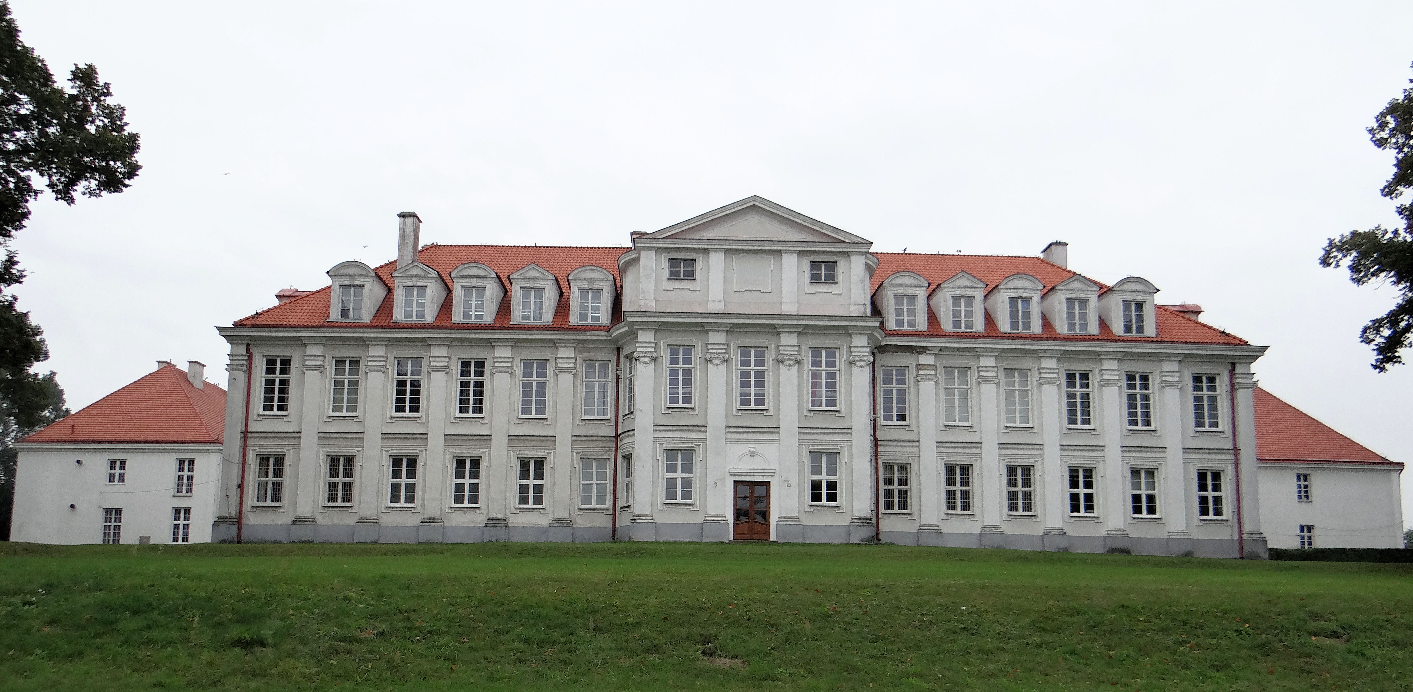 Bishops Palace in Wolbórz